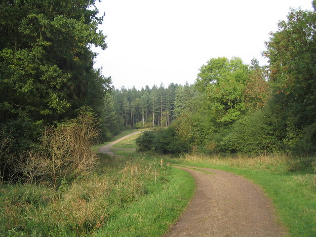 Track through Fineshade Wood Fineshade Wood and the nearby Wakerley Wood are remnants of Rockingham Forest. To my mind Fineshade is the better of the two.